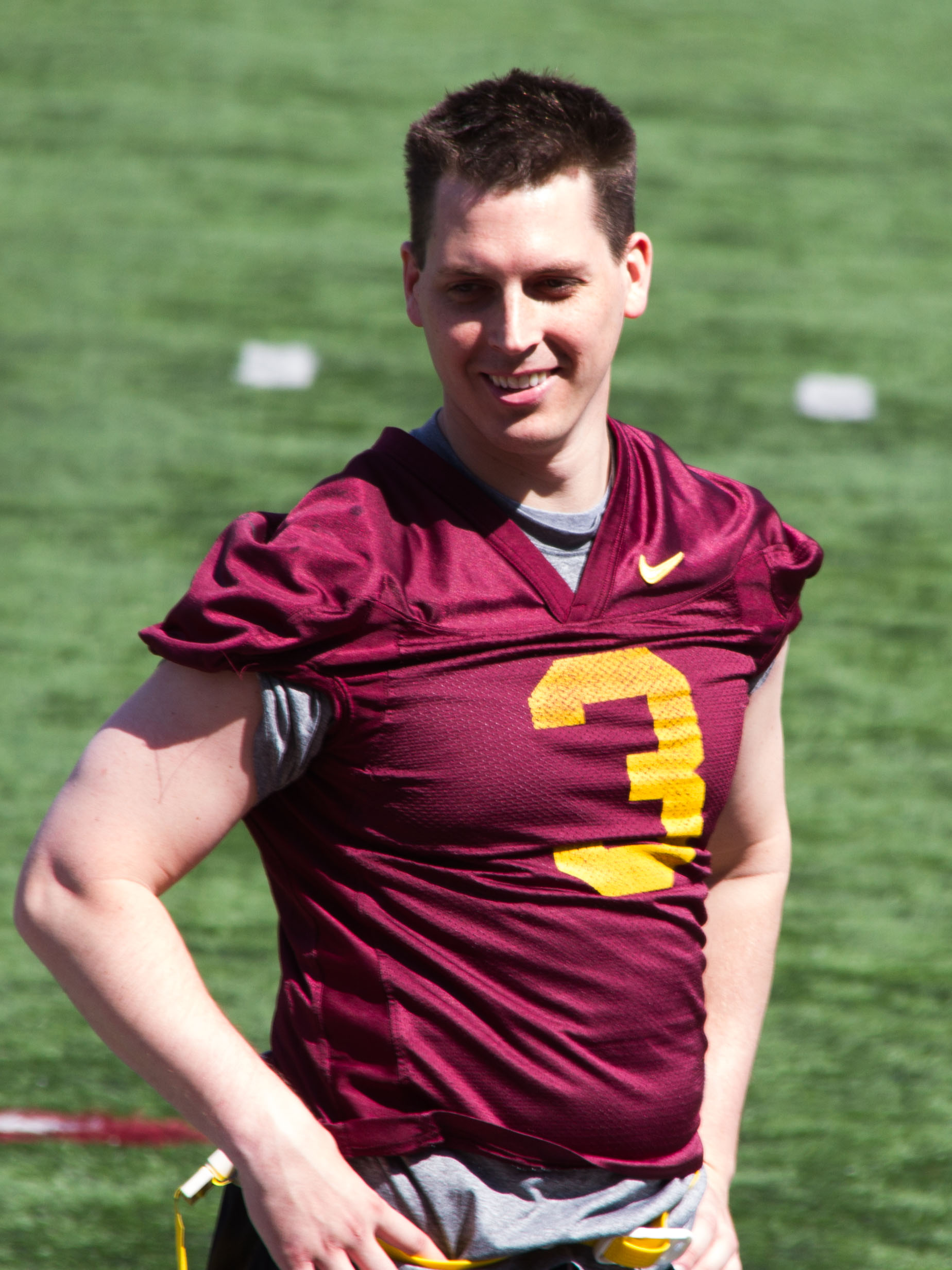 Bryan Cupito at the Minnesota Golden Gophers football team's 2013 Spring Game in TCF Bank Stadium, Minneapolis, Minnesota, USA.